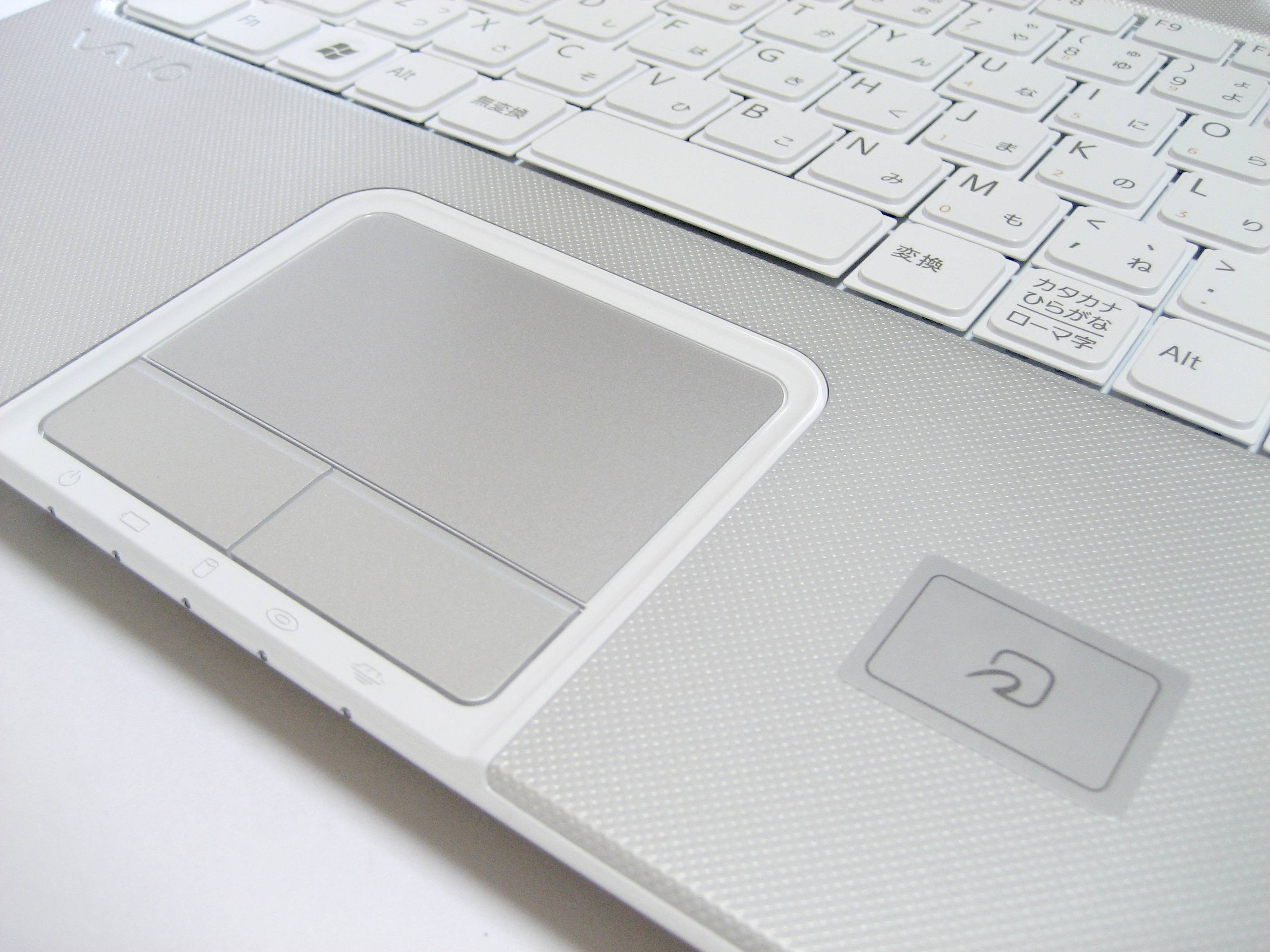 A FeliCa of Sony Vaio type C (VGN-C90S).